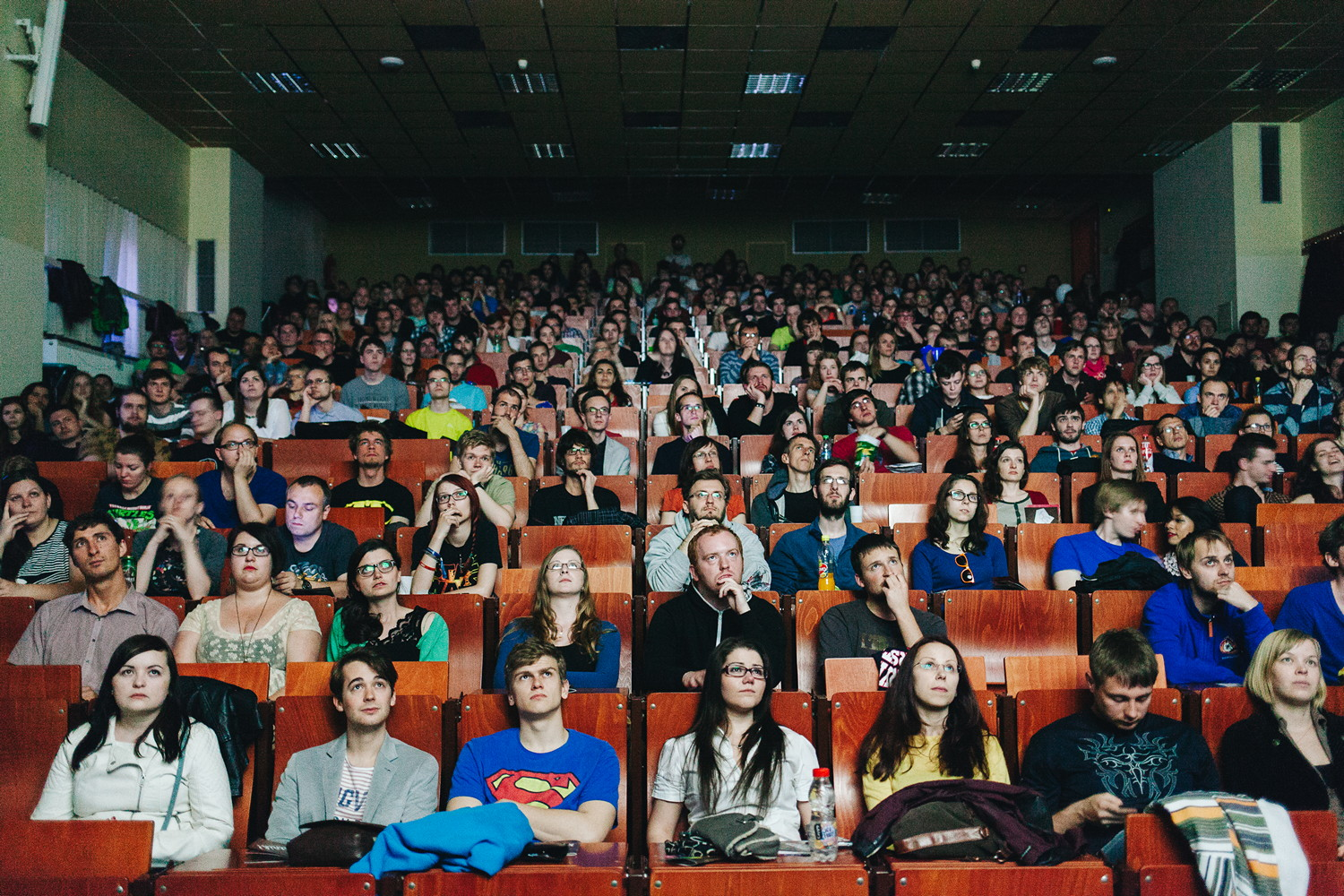 Film festival of Faculty of Informatics audience